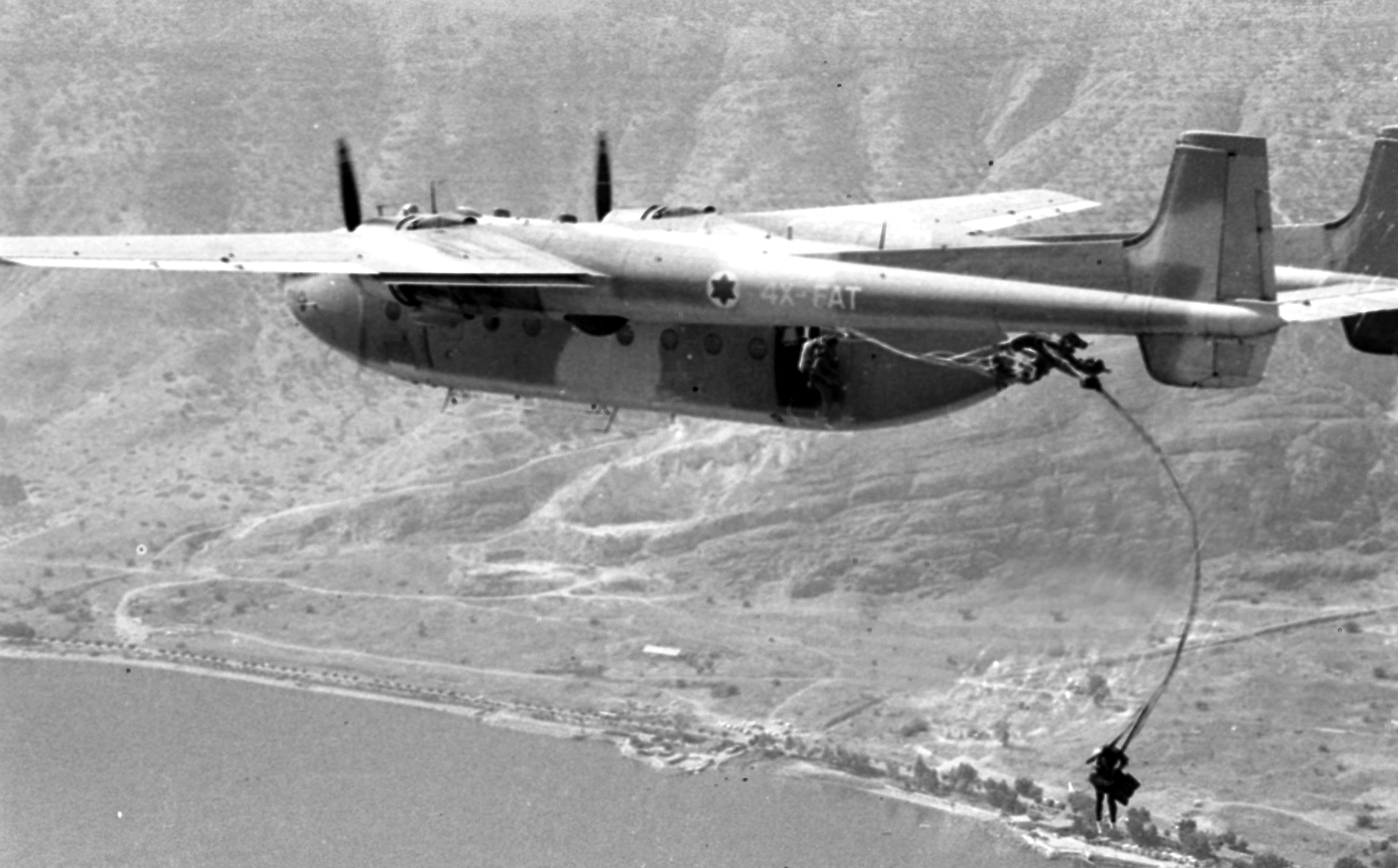 The IDF organized a special exercises for the Paratroopers Unit and for the Navy when hundreds of soldiers jumped from several airplanes into the sea. The naval landing boats and helicopters collected them from the sea. Photo shows: Paratroopers jumping from a North; transporter.